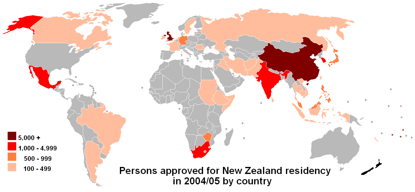 Persons acquiring New Zealand residency in 2004-05 (fy) by country of citizenship; ref